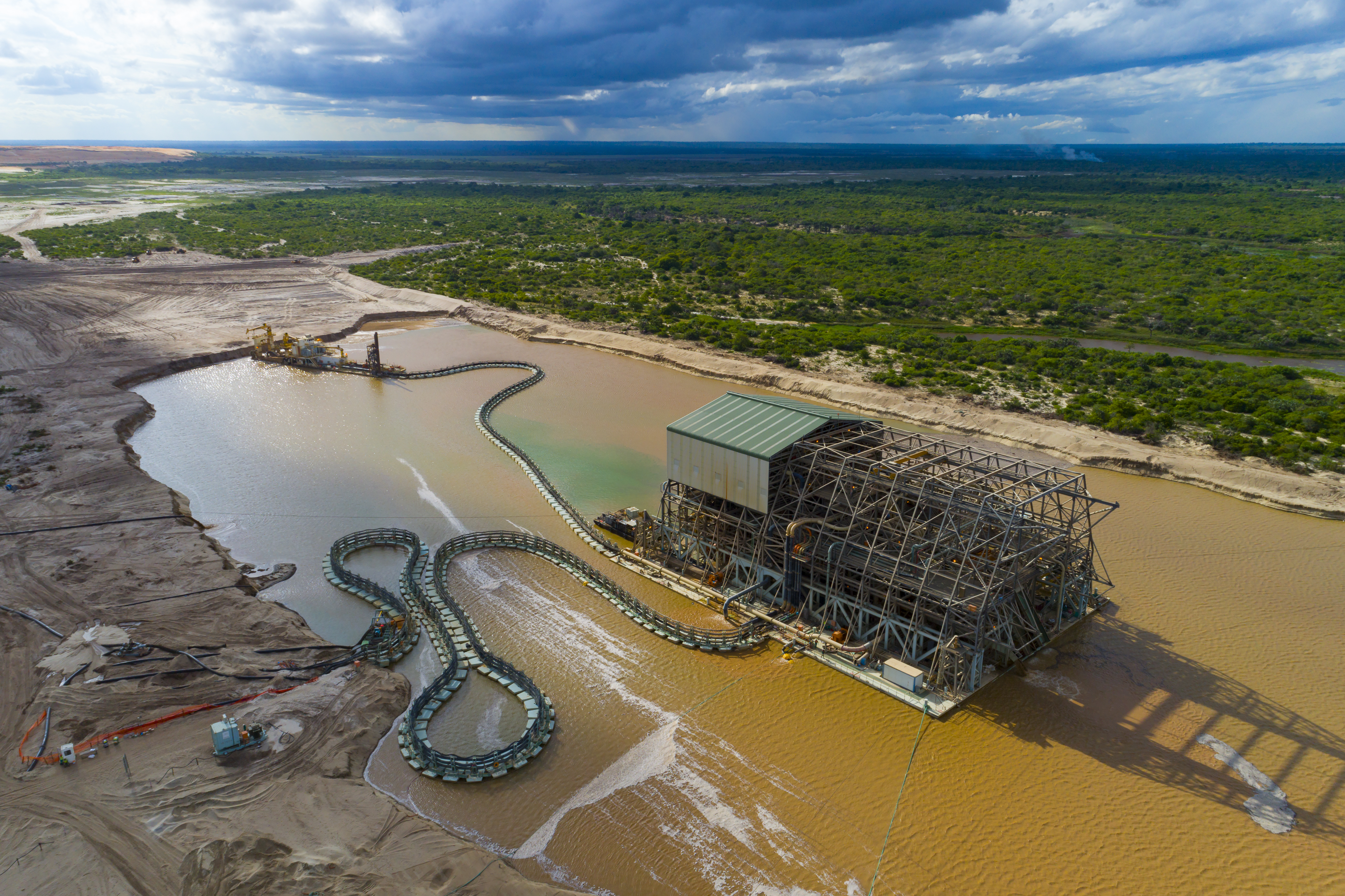 Aerial photo of WCP B